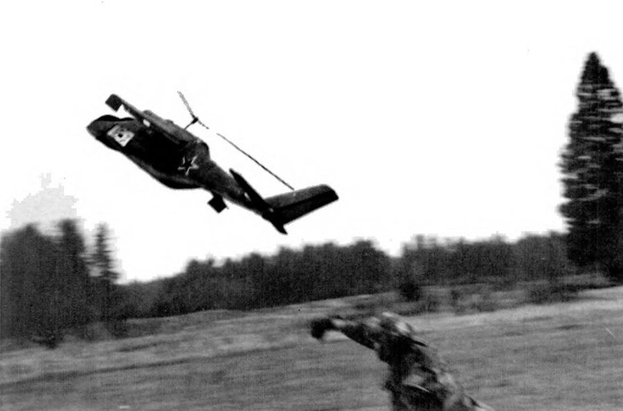 Sgt. Angel Colon, 1/67th ADA RCMAT section, launches the 1⁄9-scale Hind D radio-controlled miniature aerial target (RCMAT) during engagement exercises at Fort Lewis, Wash.